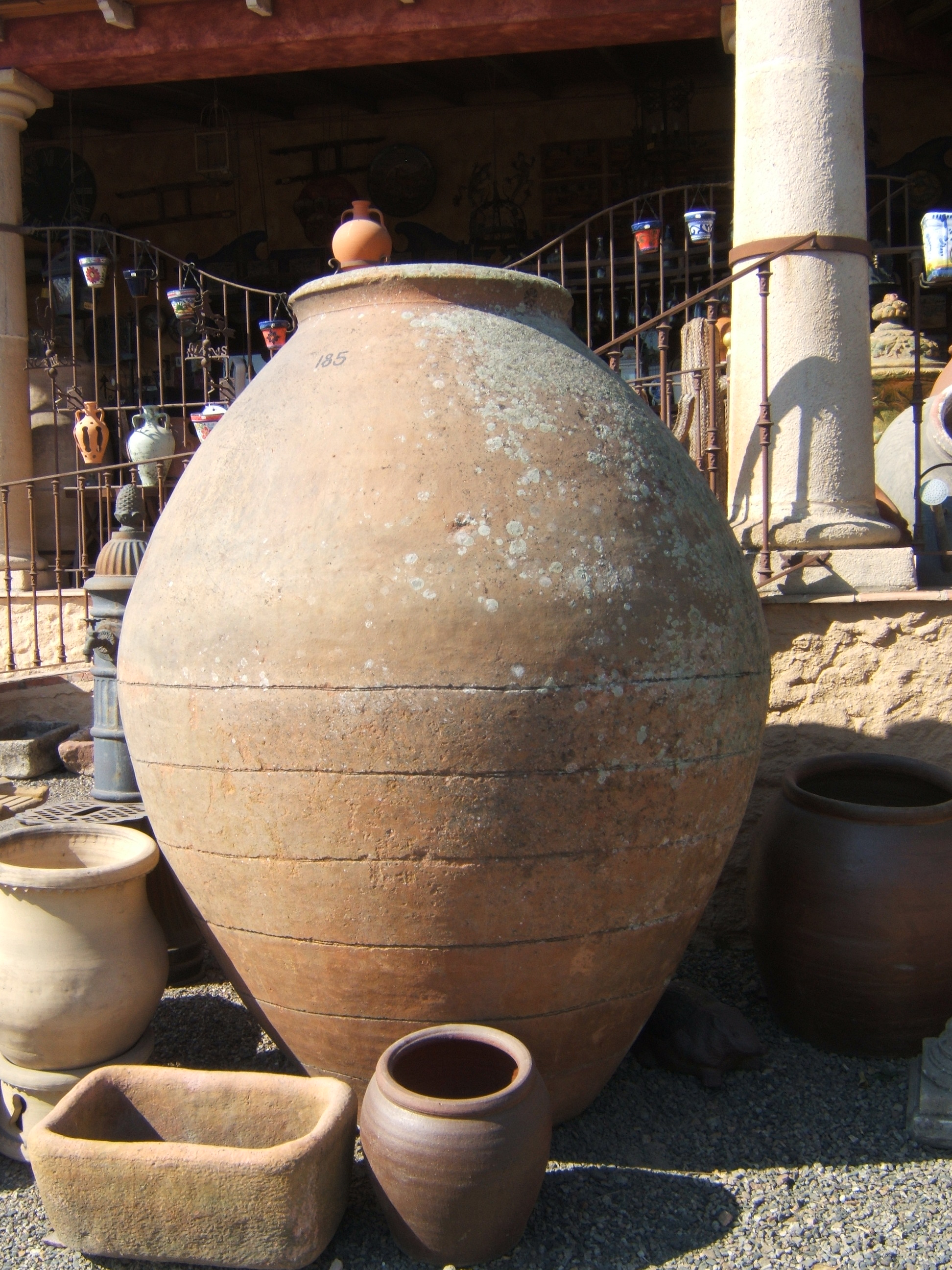 La Mancha tub in a sale of Guarromán (Jaén, Spain). Large clay vessel to preserve wine, oil or seeds.